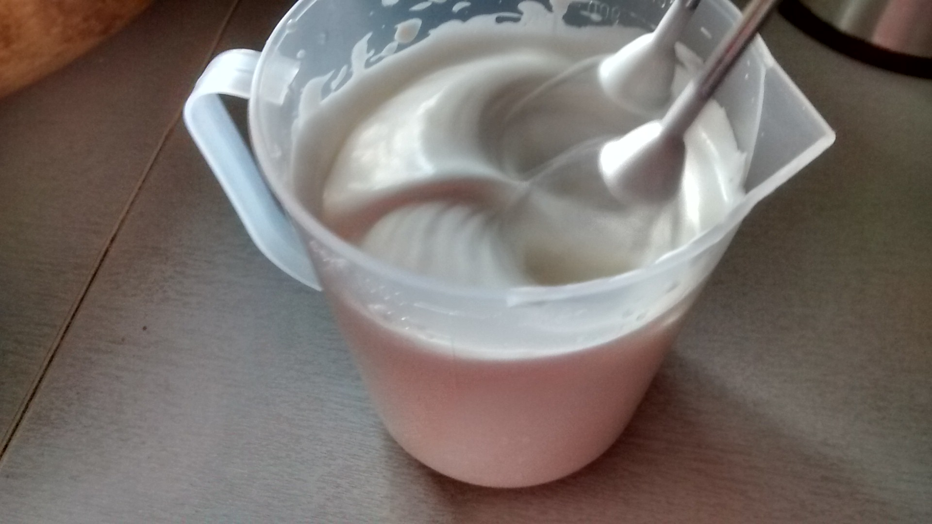 Aquafaba from a can of White Beans, whipped for a few minutes.